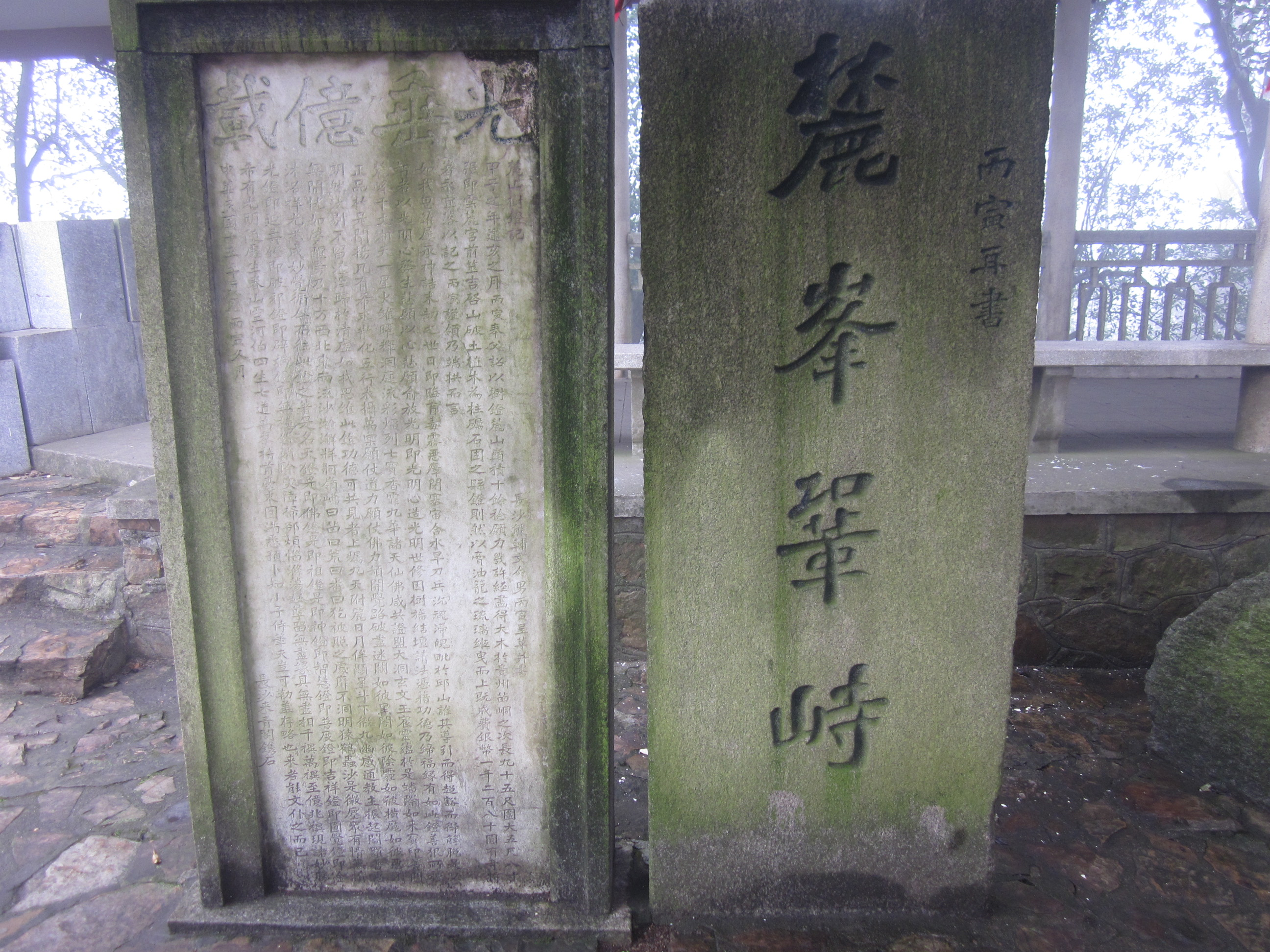 Yunlu Palace, is a Taoist temple located in Yuelu Mountain, Changsha, Hunan, China.